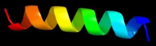 structure smim11a